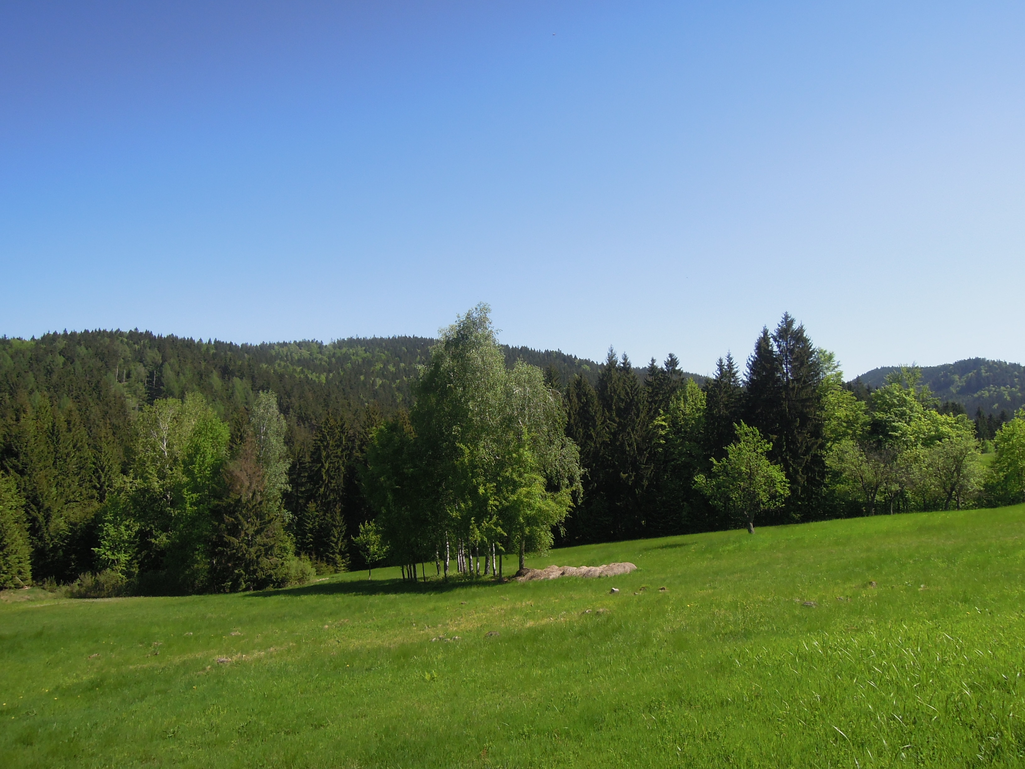 Kudlačena natural monument in Horní Bečva, Vsetín District, Zlín Region, Czech Republic